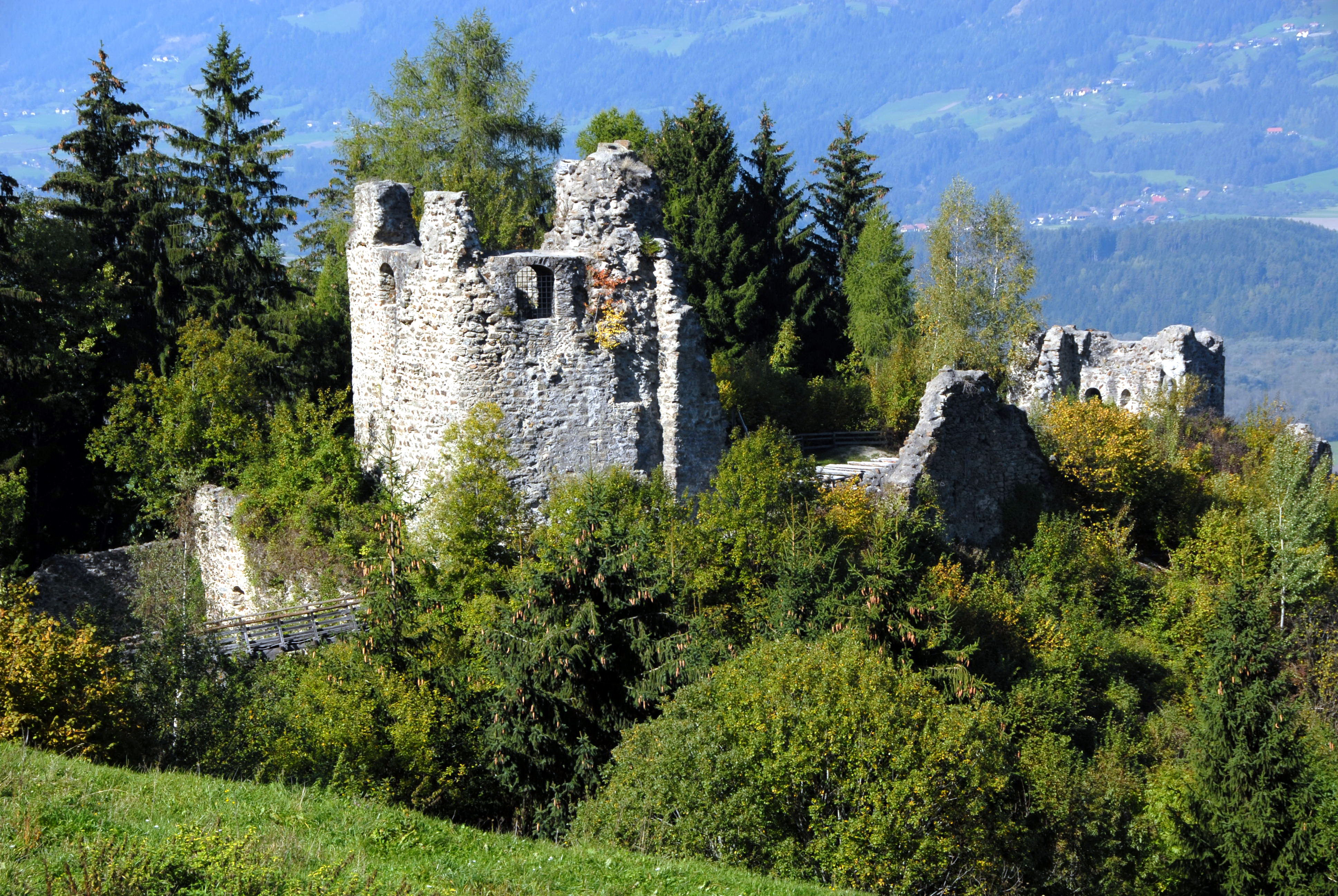 Ruin of castle Ortenburg in the community of Baldramsdorf, Carinthia, Austria, EU.